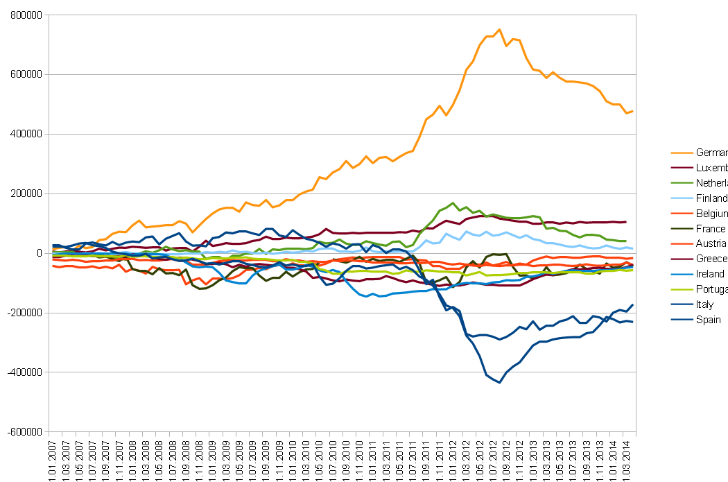 TARGET2 balances in the Eurosystem from January 2007 to April 2014 (monthly data in millions of euros)